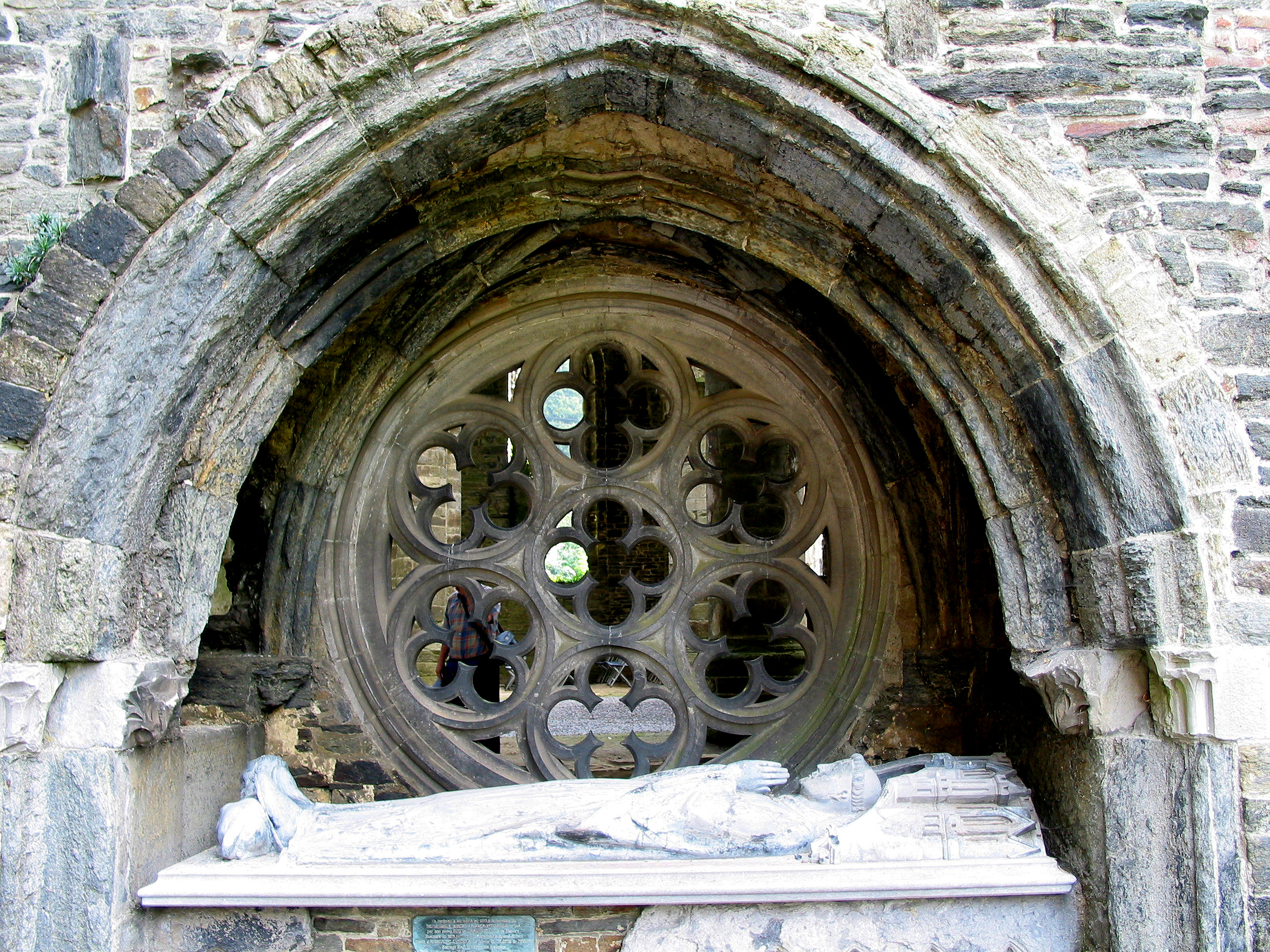 Villers-la-Ville (Belgium), occulus of the cloister abbey-church and and lying of the Count Gobert d'Aspremont.